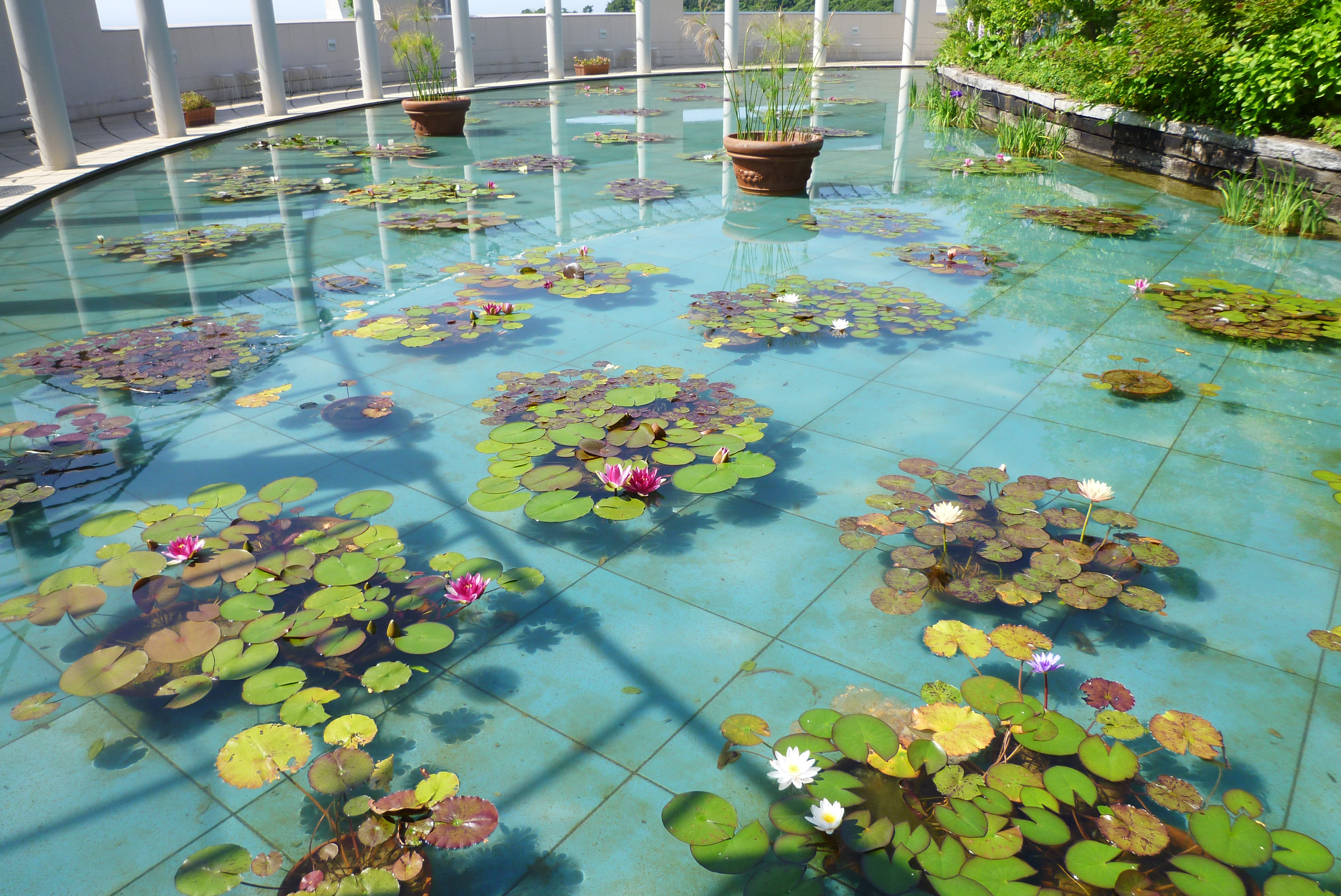 Otsuka Museum of Art, Naruto, Tokushima prefecture, Japan.